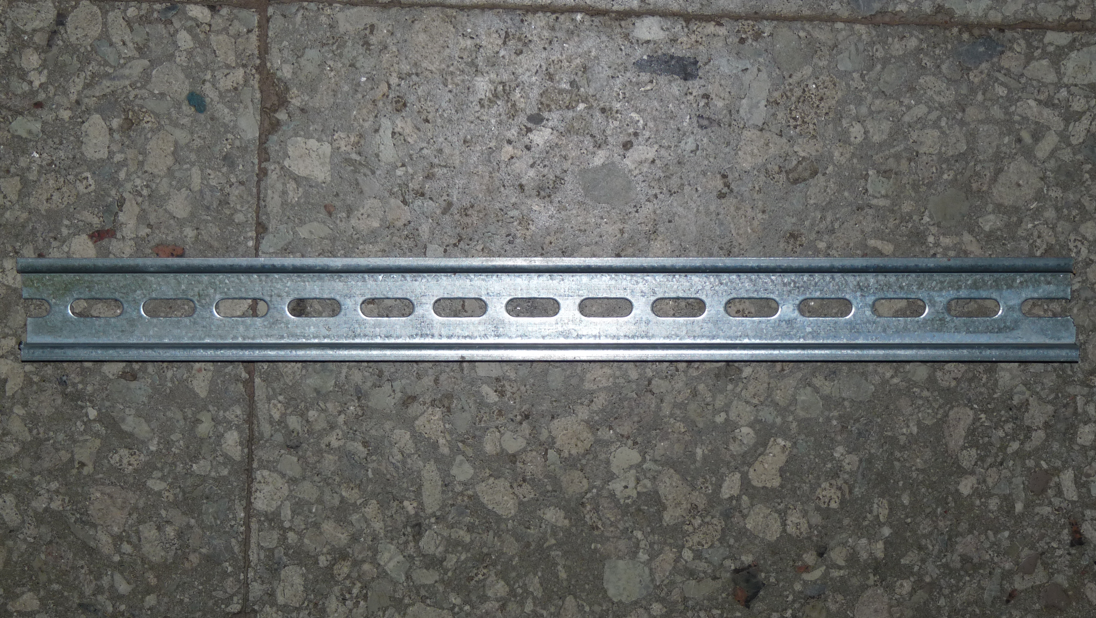 DIN rail